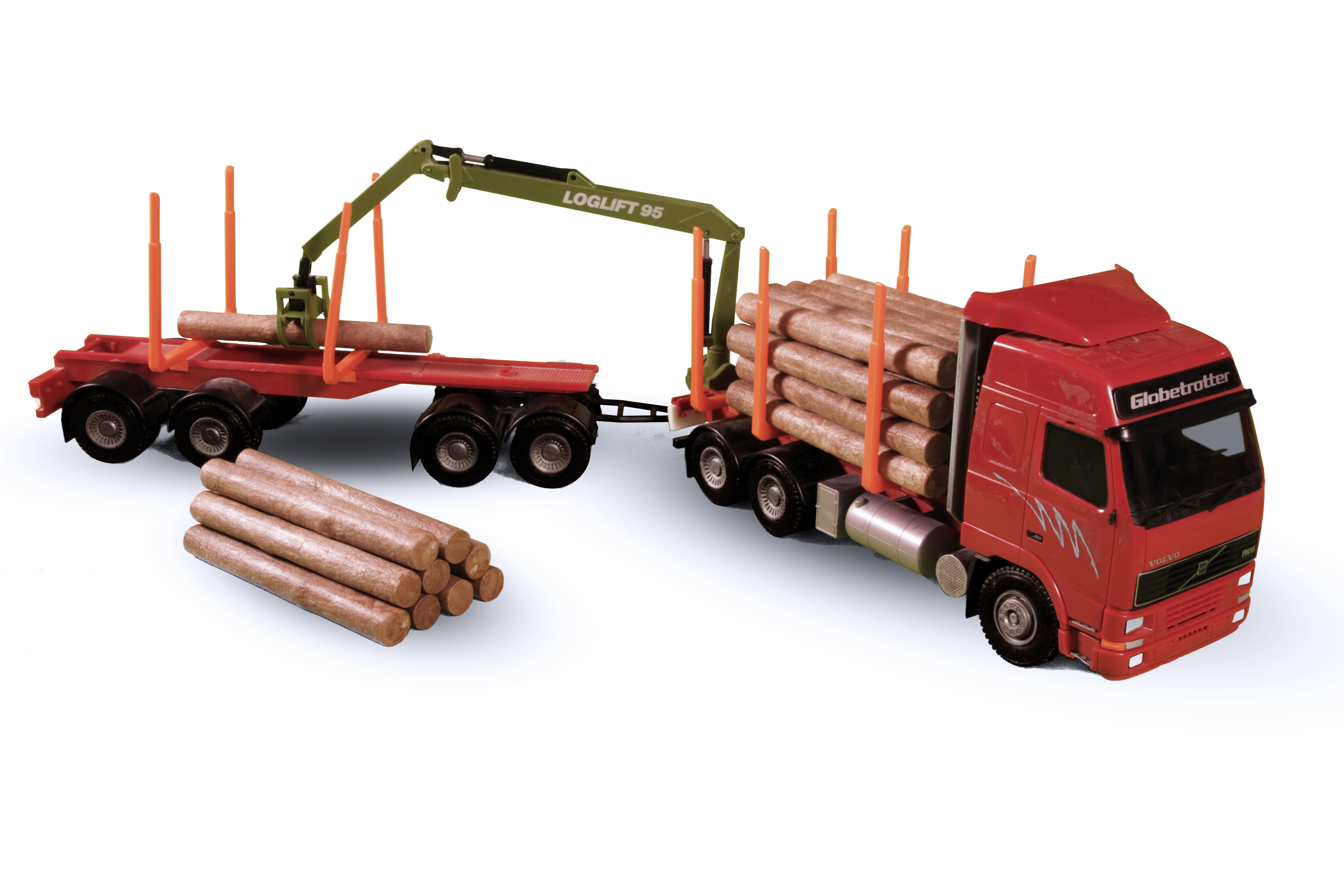 Volvo FH16 Globetrotter Timber Truck model manufactured by Emek-Muovi Oy. Crane Cargotec Finland Oy Hiab Loglift 95. Scale 1:25. Made of plastic. Exposure time 0,6/1 s; F-number f/18; ISO speed rating 100.